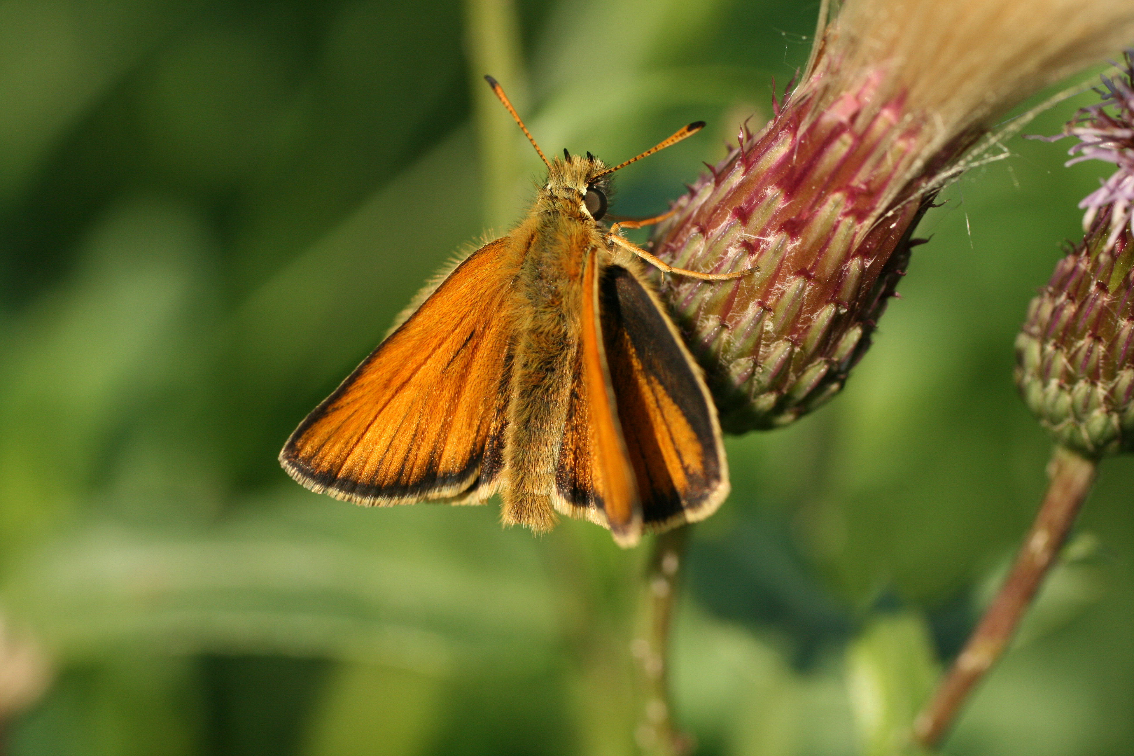 European Skipper at Lill-Jansskogen, Stockholm, Sweden.